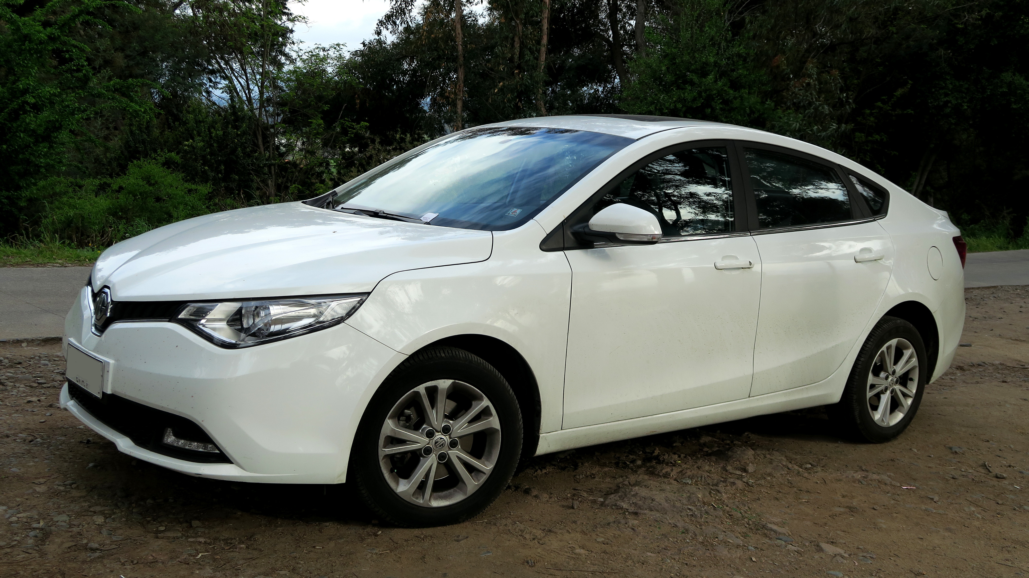 MG GT 1.4T Comfort 2016